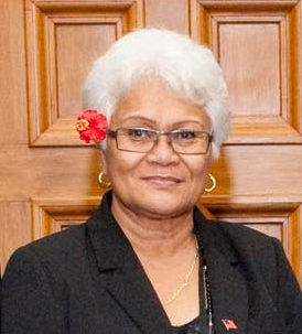 Gatoloaifaana Amataga Alesana-Gidlow at the Pacific Parliamentary and Political Leaders Forum lunch in Wellington, NZ in April 2013